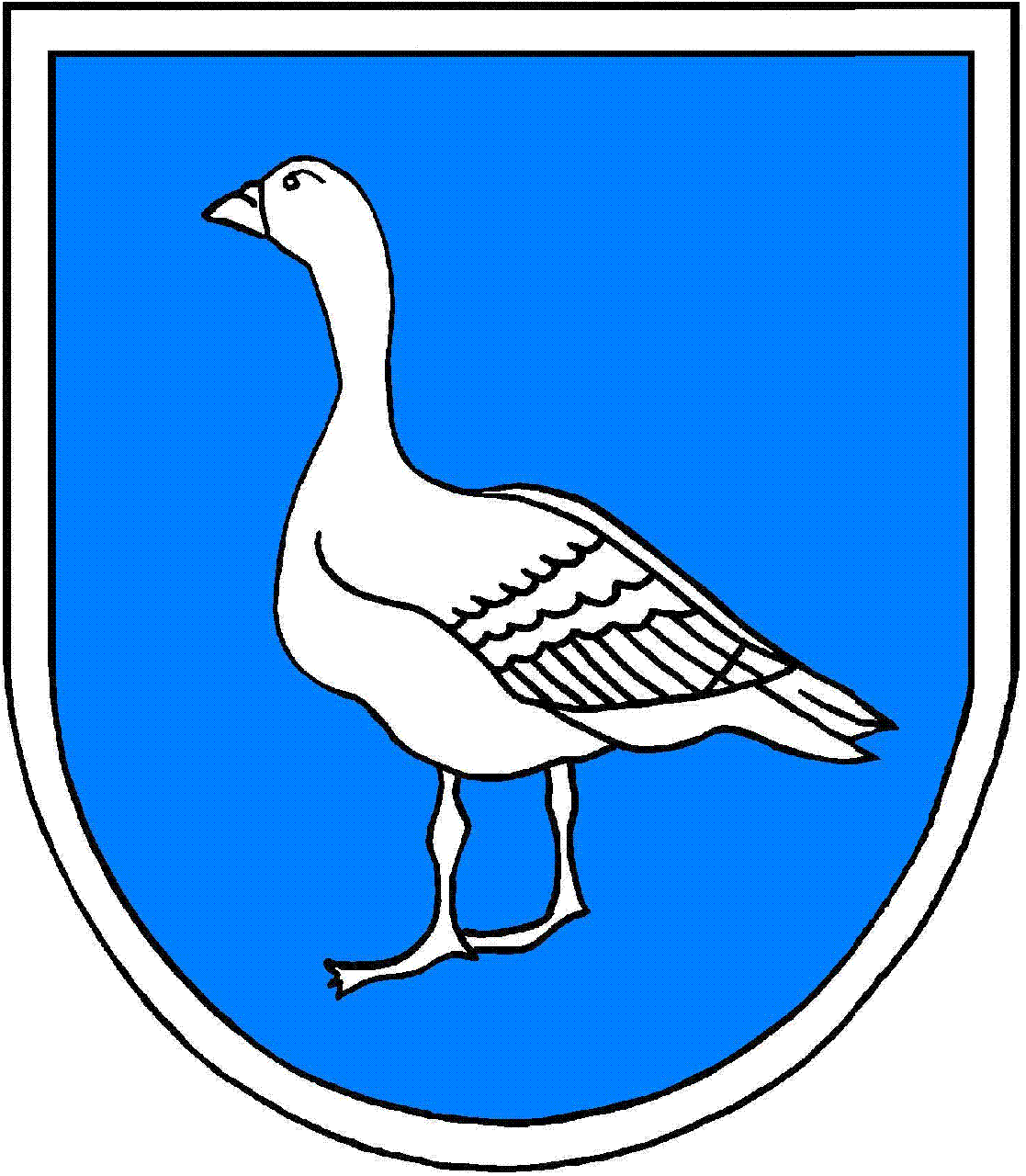 Coat of arms of Anija Parish between 1993 and 2002.